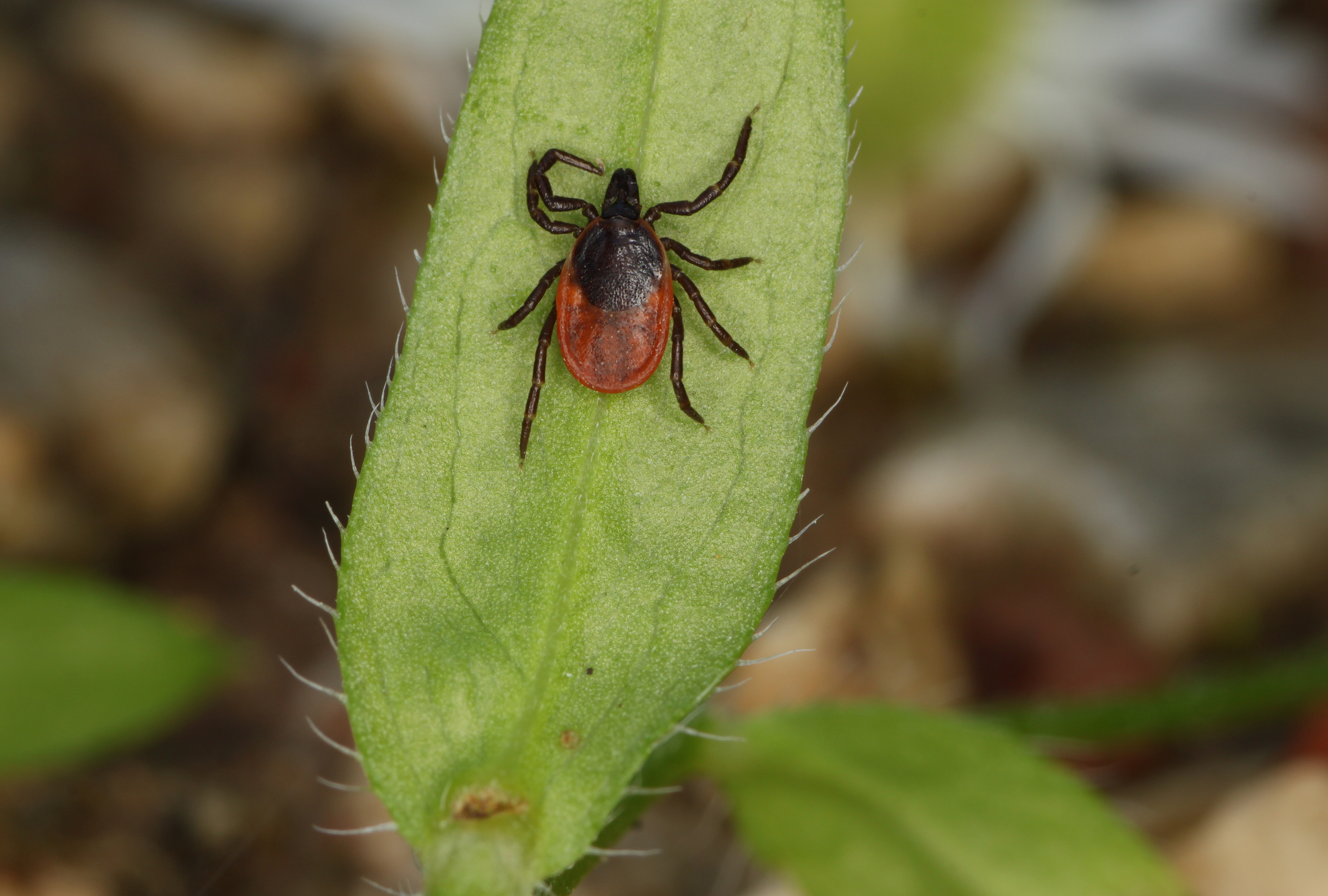 Castor Bean Tick Ixodes ricinus, Family: Ixodidae, Location: Germany, Ulm, Eggingen